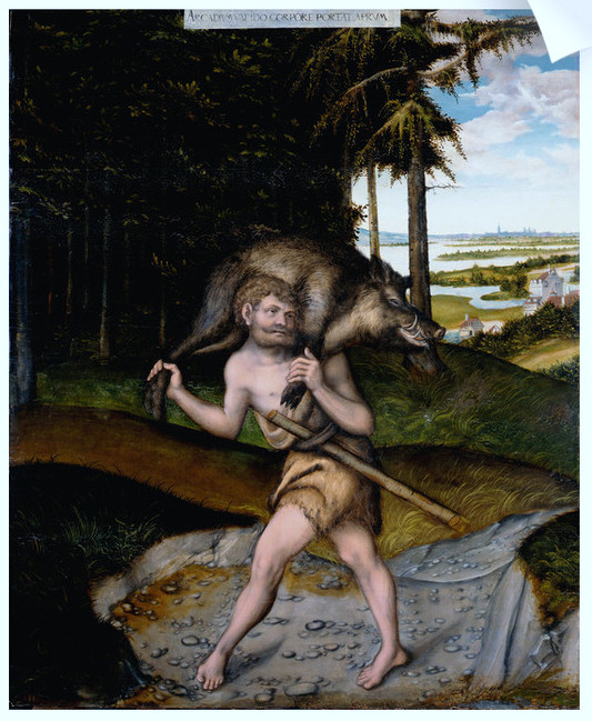 Heracles and the Erymanthian Boar Lucas Cranach the Elder